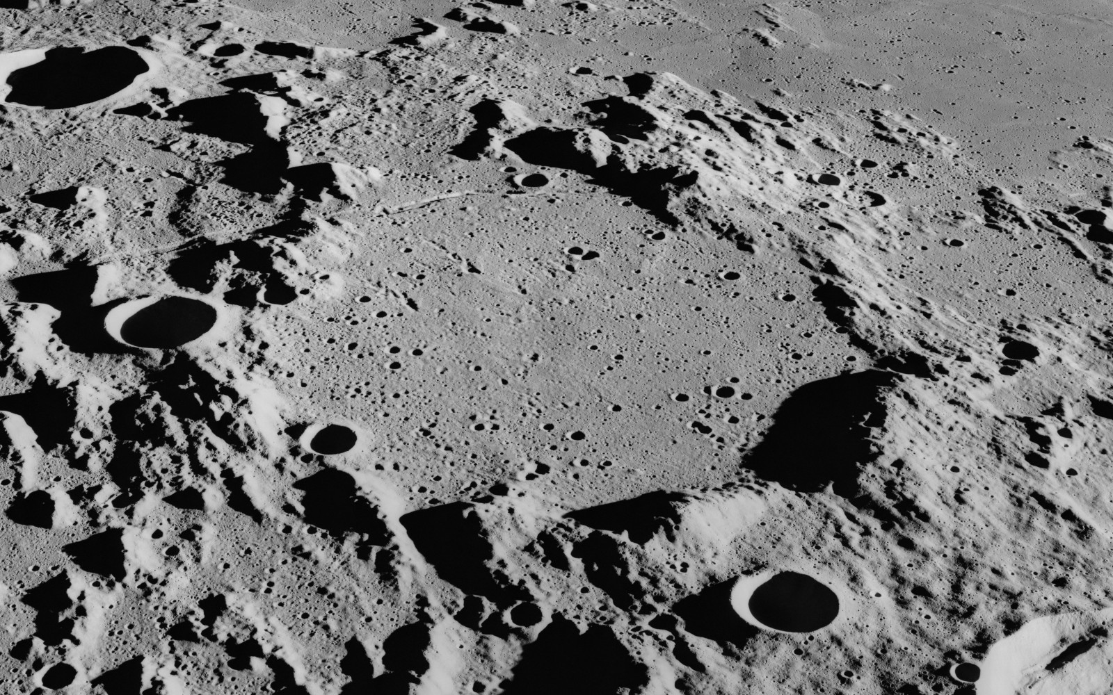 Oblique view of Flammarion crater, on the moon, facing north.